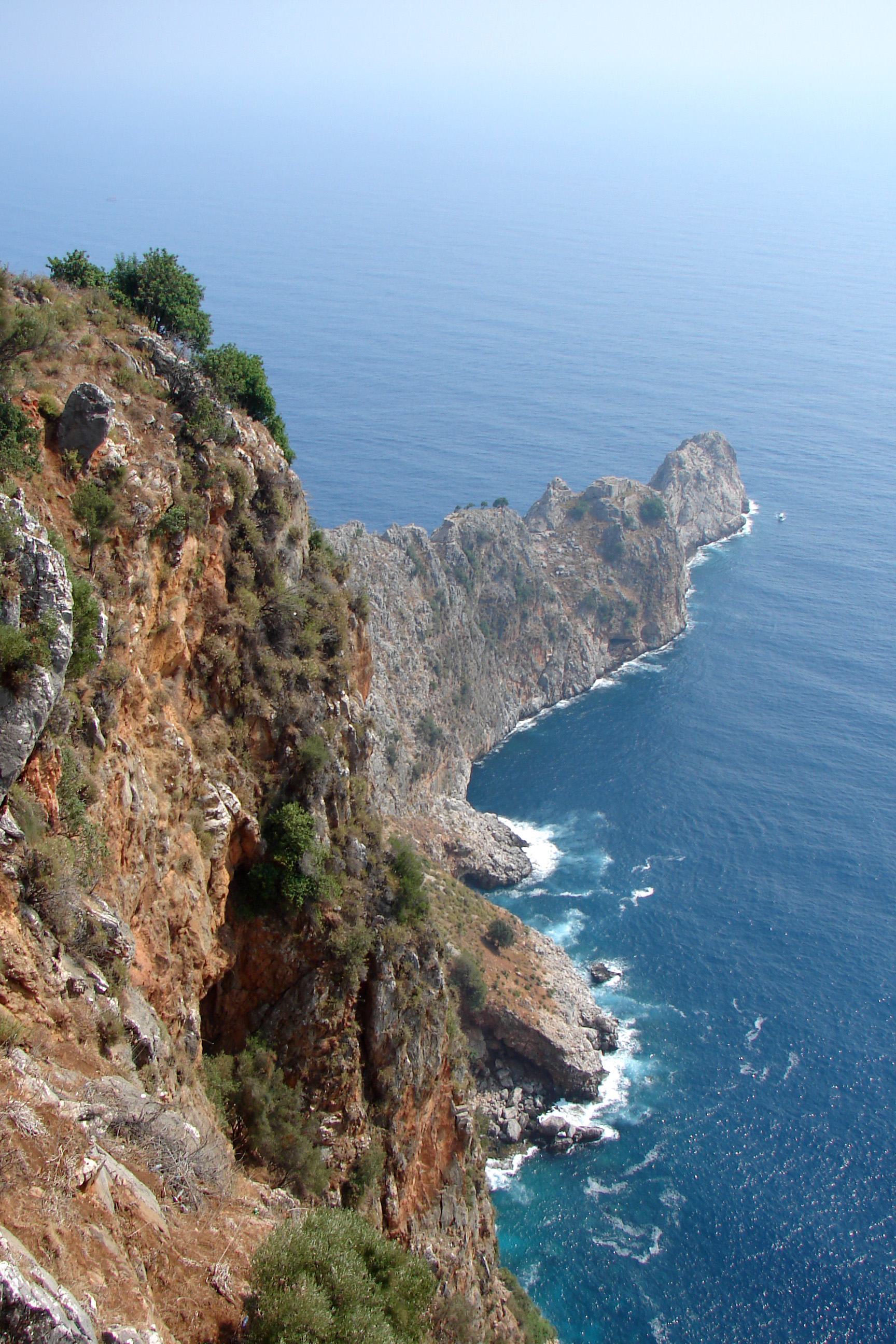 Alanya, peninsula